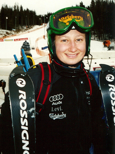 Finnish skier Tanja Poutiainen after slalom training in Semmering (Austria) on December 28th, 2002.